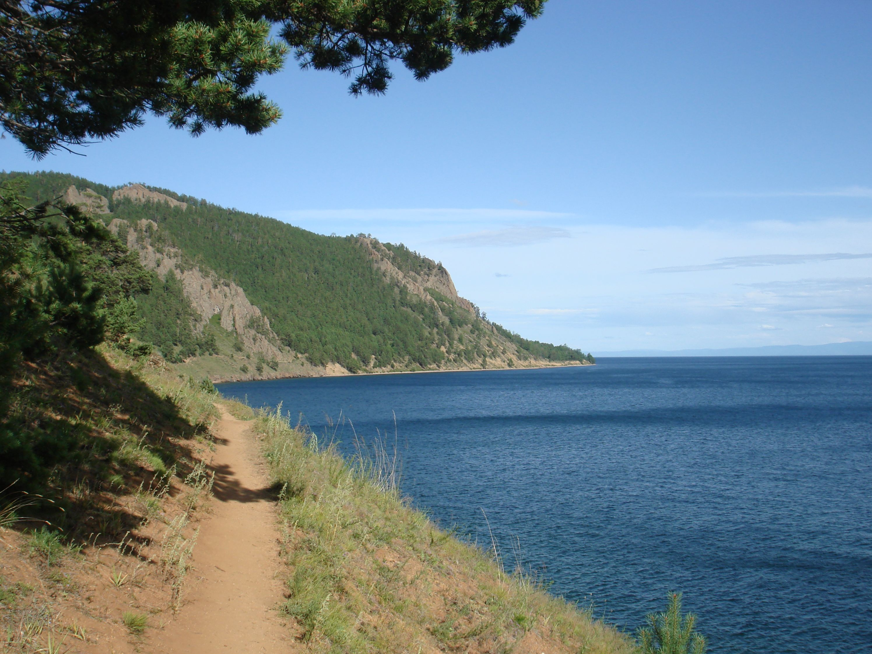 A photograph of a part of the Great Baikal Trail near the settlment Bolshie Koty made in July 2009.